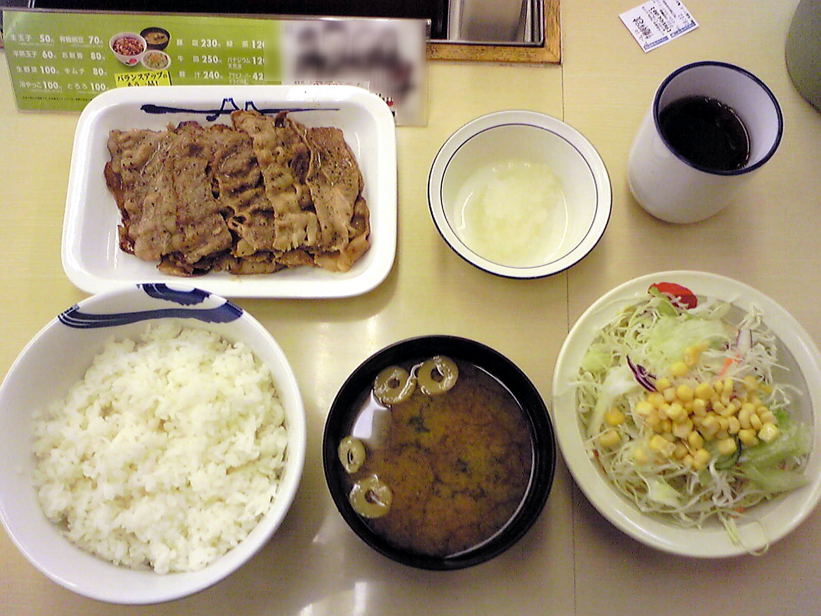 Roast meat table d'hote. It is being offered in the multiple store named Matsuya.